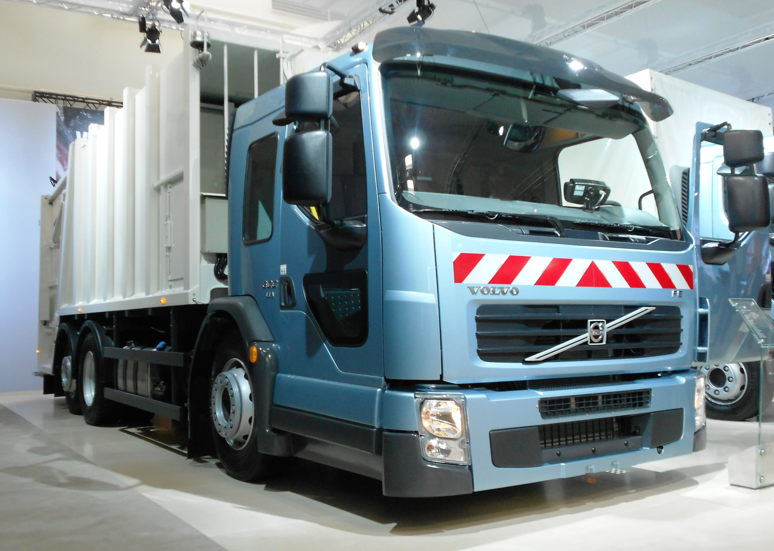 Volvo FE 6x2 refuse collection truck, upper body Haller, built 2012, photo taken at exhibition IAA 2012 in Hanover, Germany.